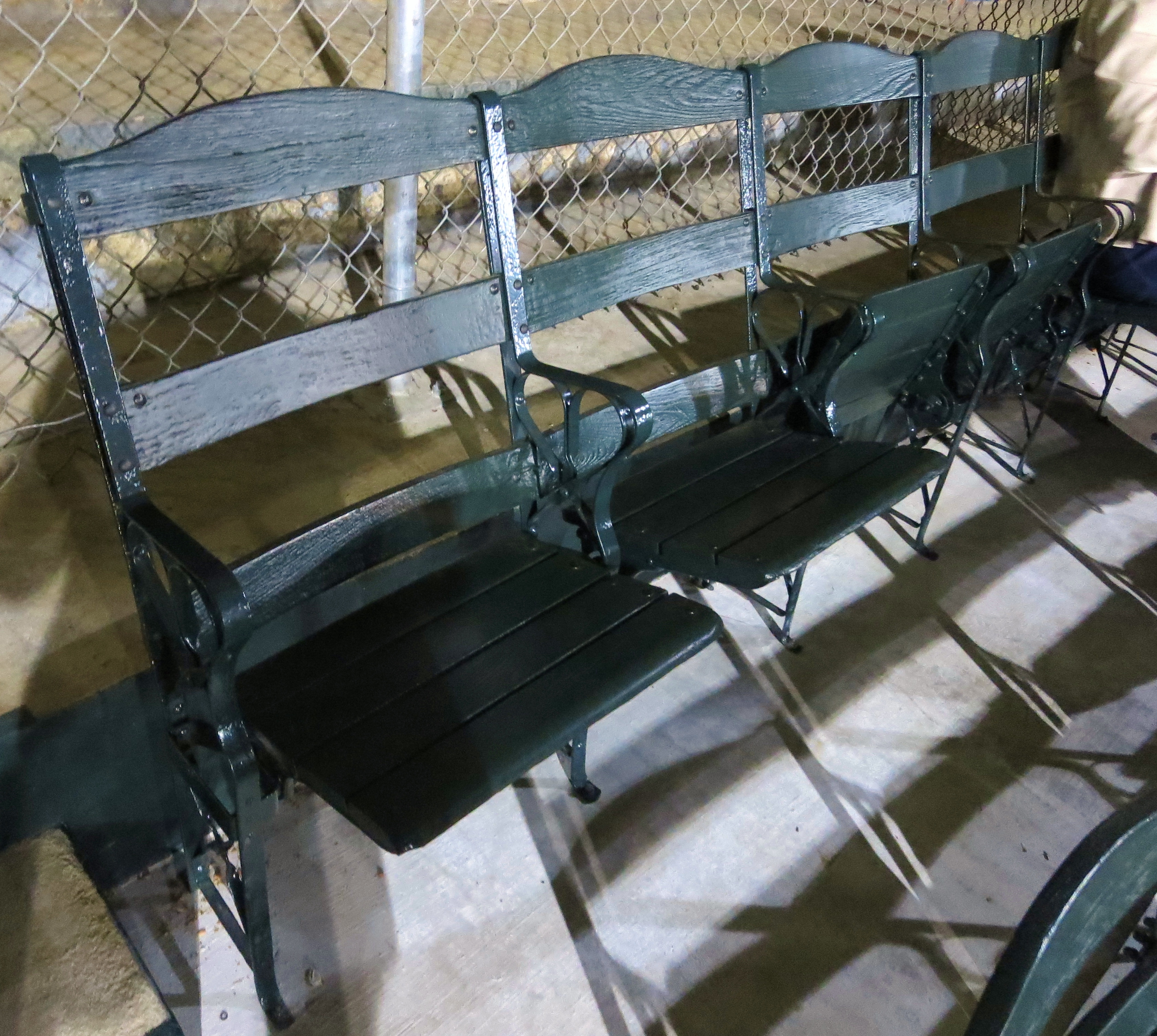 Several of the recently restored Shibe Park seats at Duncan Park Stadium during a 2015 baseball game.